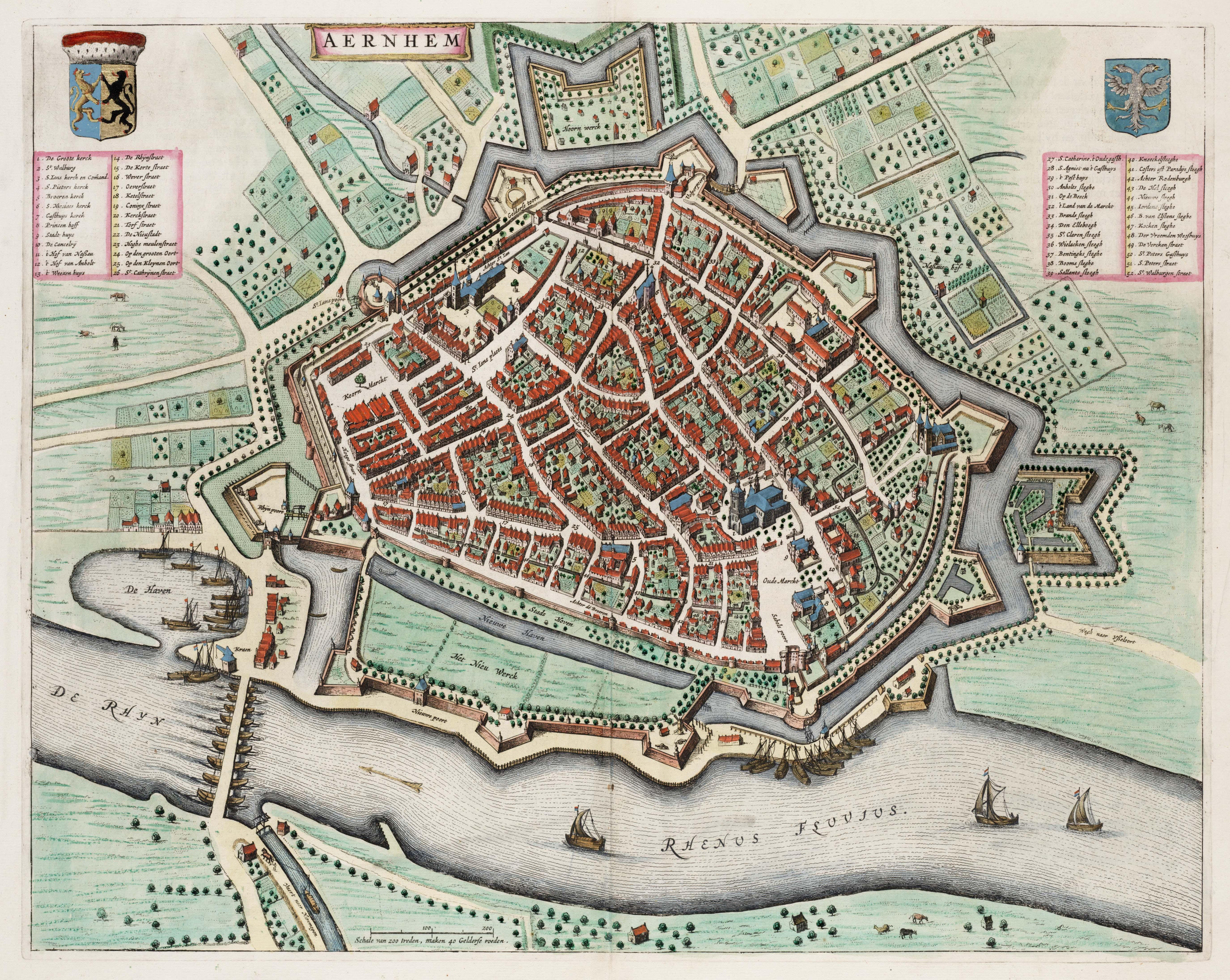 Arnhem.